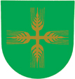 Coat of arms of Mellilä